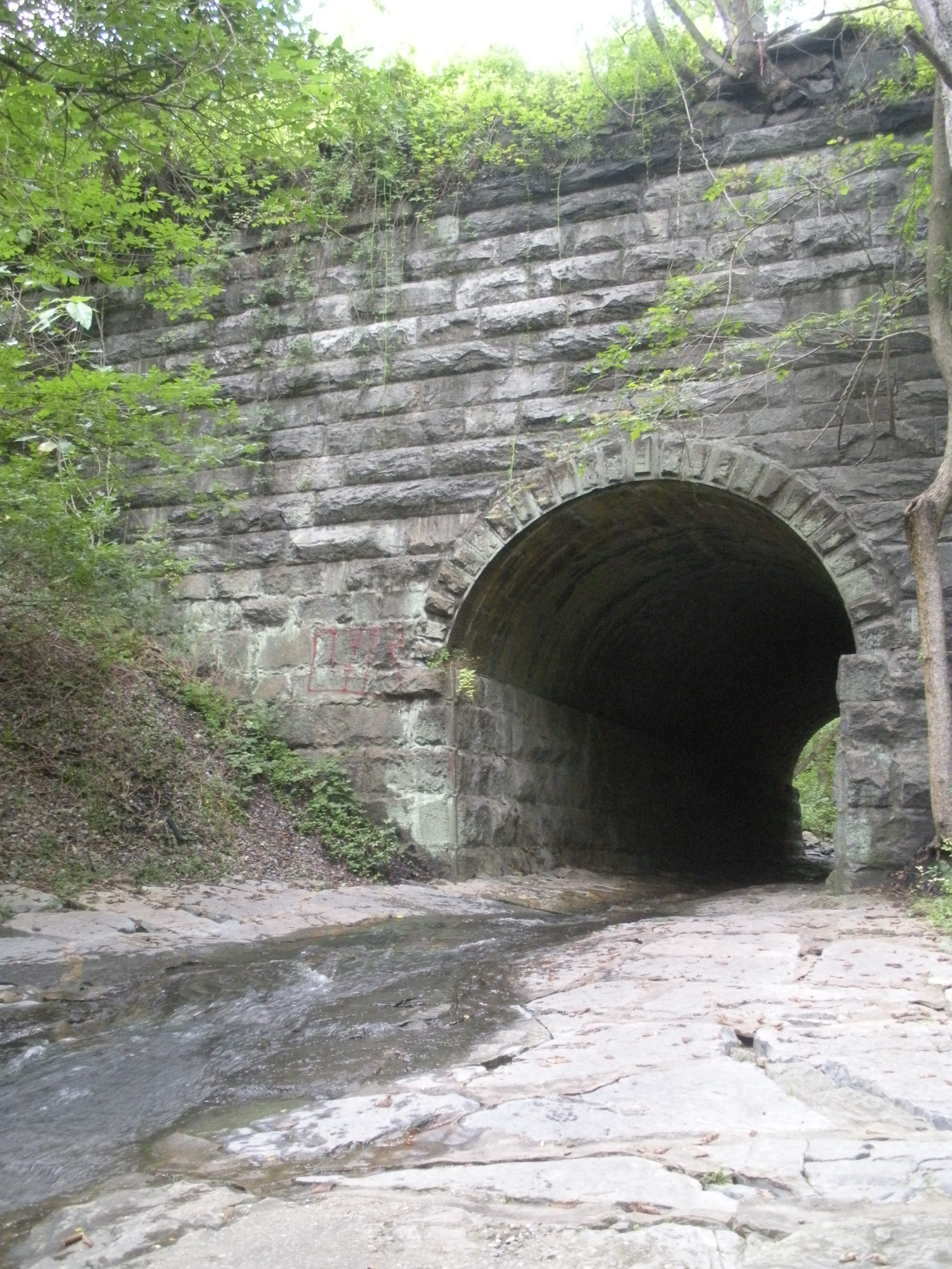 Picture of tunnel under the CSX Railroad along the Grist Mill Trail at Patapsco Valley State Park. (August 14, 2010)